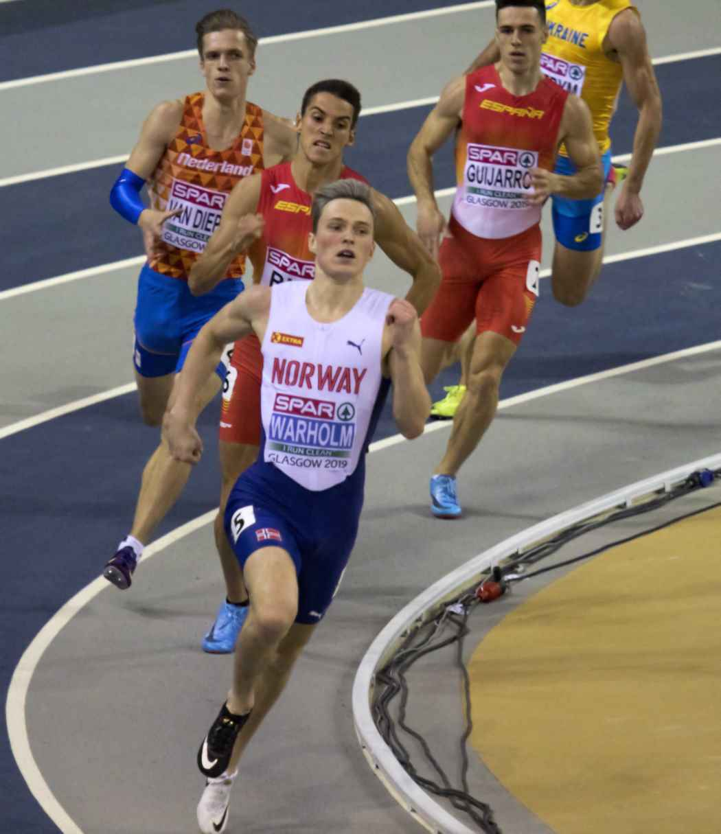 semi 2 at men's 400m event, Glasgow 2019